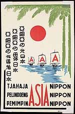 Japanese colonial propaganda poster of 3A Movement (3A運動のポスター Gerakan 3A) in Dutch East Indies or Indonesia Japan is the light of Asia. (亞細亞の光日本 Nippon Tjahaja Asia) Japan is the protector of Asia. (亞細亞の母体日本 Nippon Pelindoeng Asia) Japan is the leader of Asia. (亞細亞の指導者日本 Nippon Pemimpin Asia)